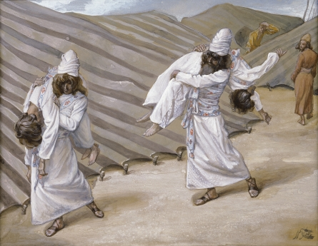 The Dead Bodies Carried Away, c. 1896-1902, by James Jacques Joseph Tissot (French, 1836-1902), gouache on board, 8 1/8 x 10 5/8 in. (20.7 x 27 cm), at the Jewish Museum, New York